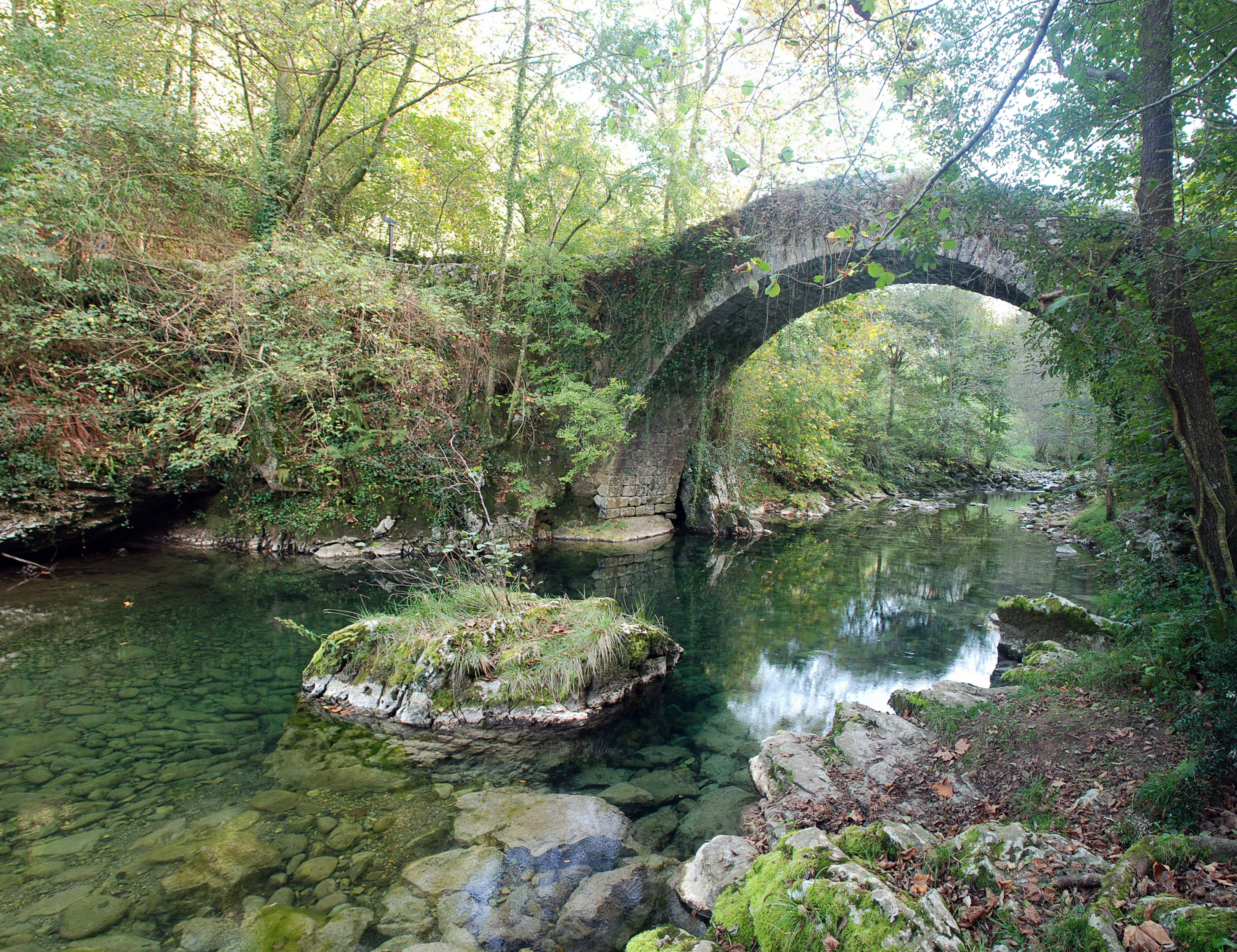 "Roman" XVIIIth century bridge of the River Route in Mirones (Cantabria).